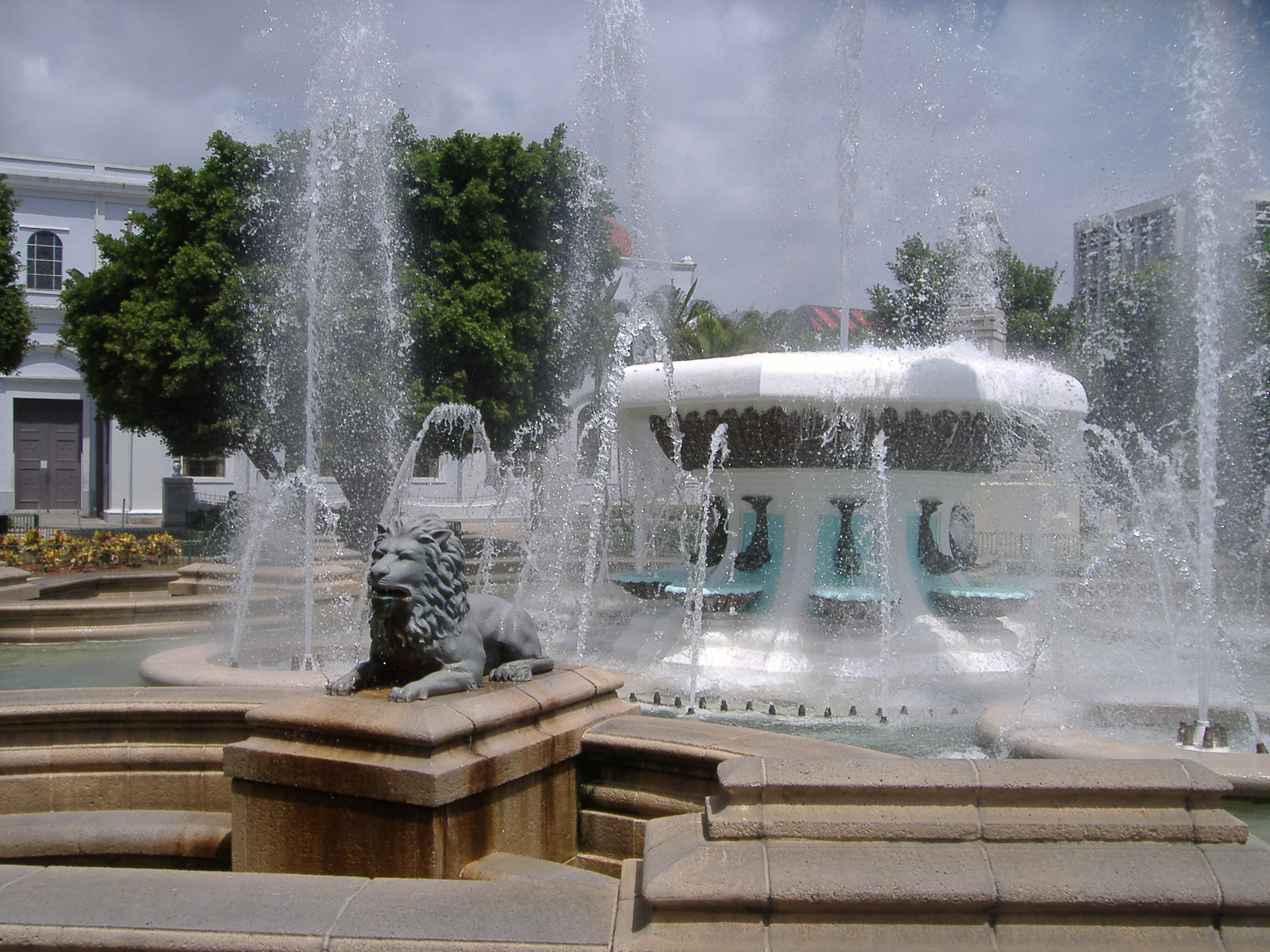 Front view of the Fountain of the Lions in the Plaza Las Delicias in Ponce, Puerto Rico.